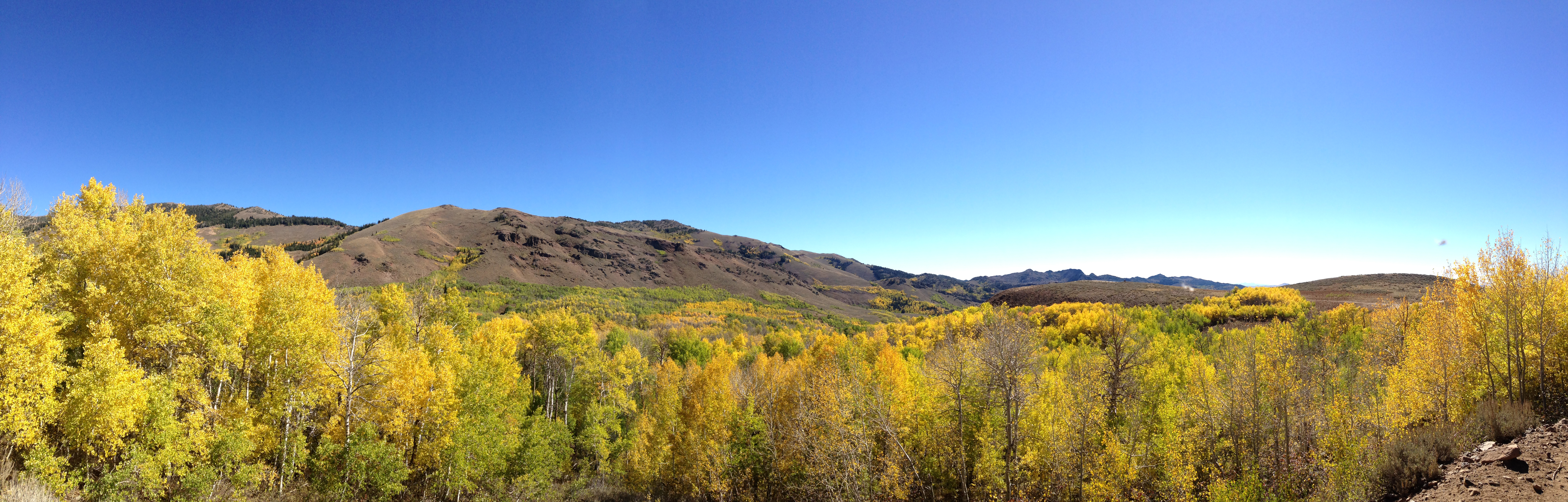 Panorama of Aspens during autumn leaf coloration from Charleston-Jarbidge Road (Elko County Route 748) in Copper Basin about 7.8 miles north of Charleston, Nevada